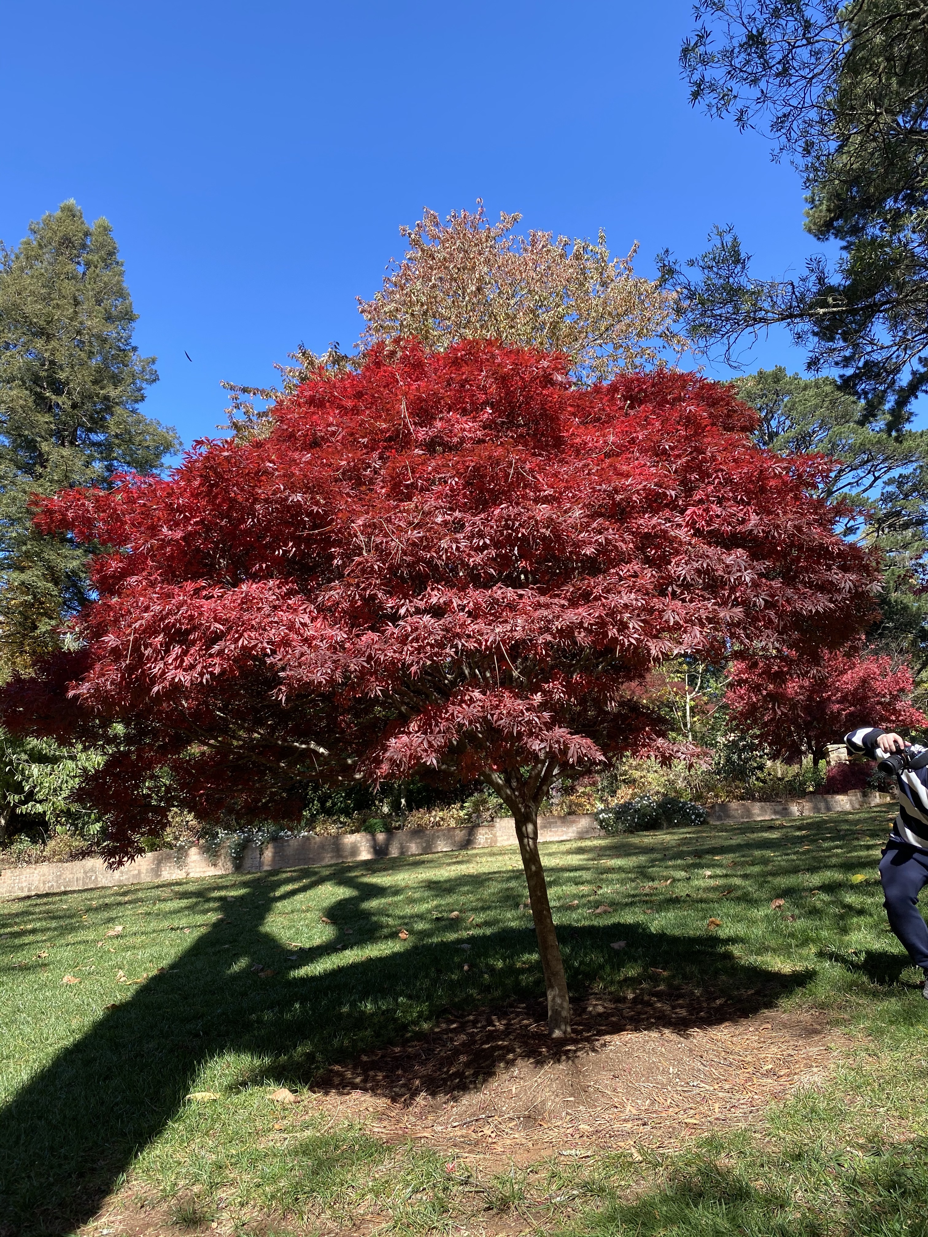 Red Maple Tree